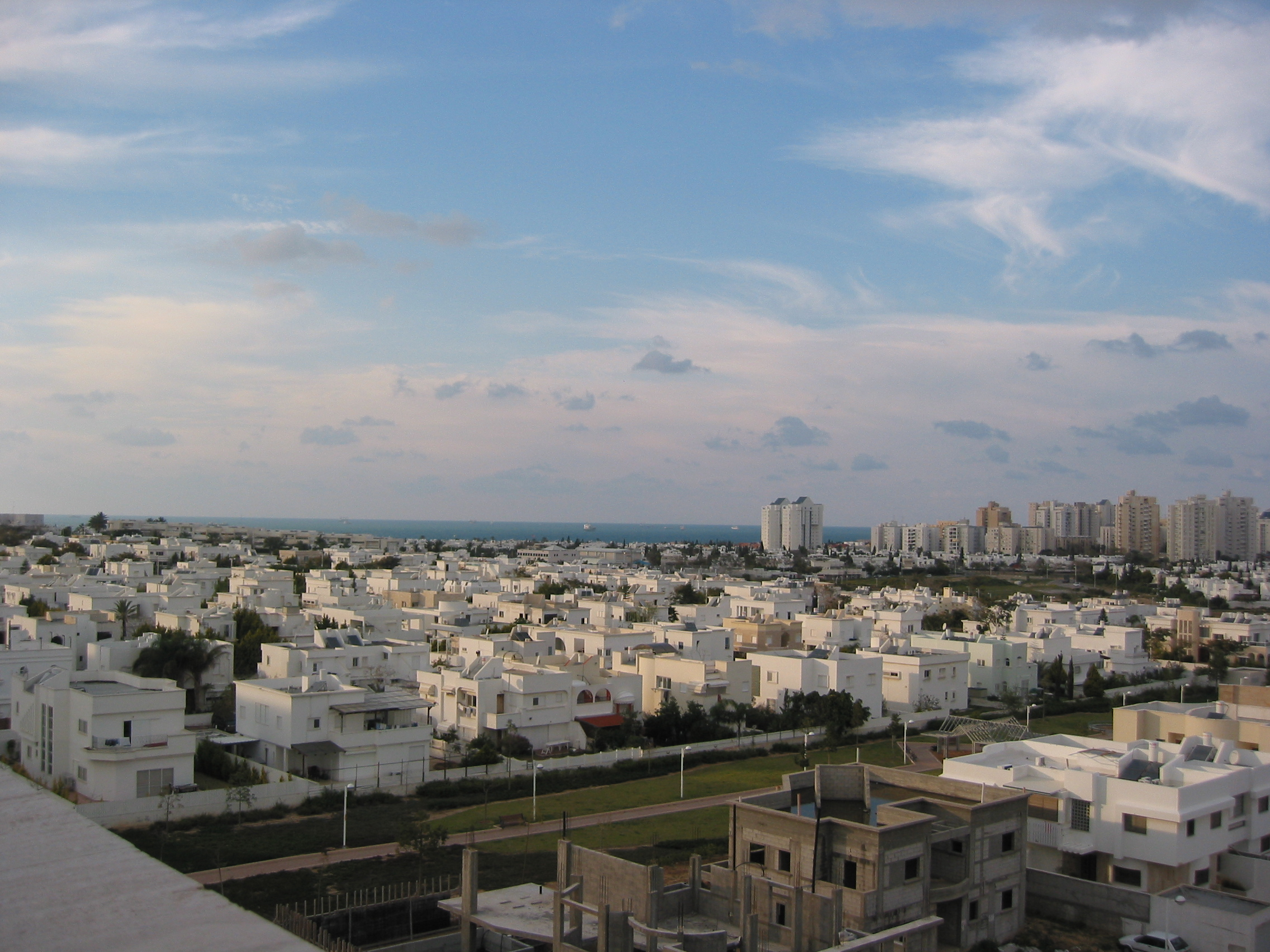 Ashdod, Israel rooftop view 14/3/2005.